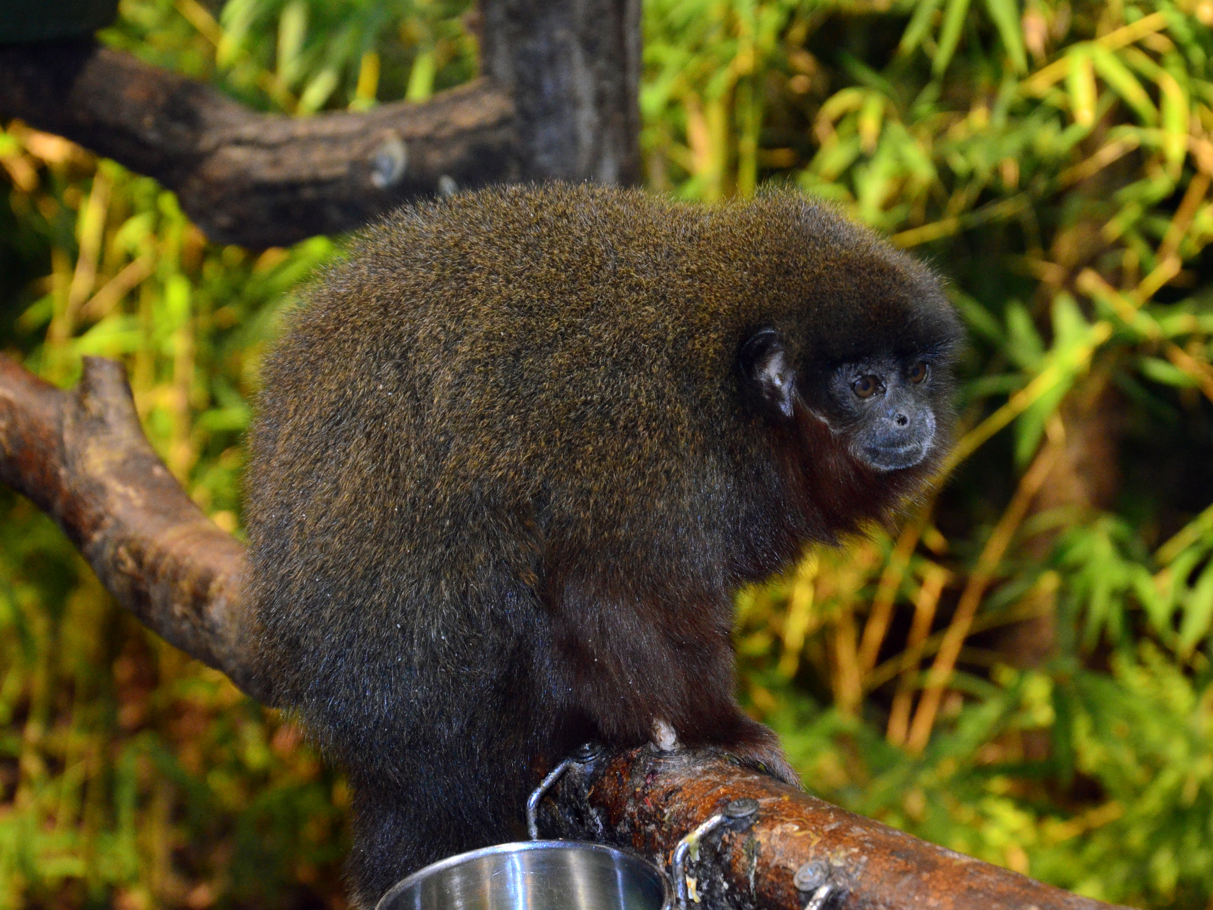 Coppery Titi